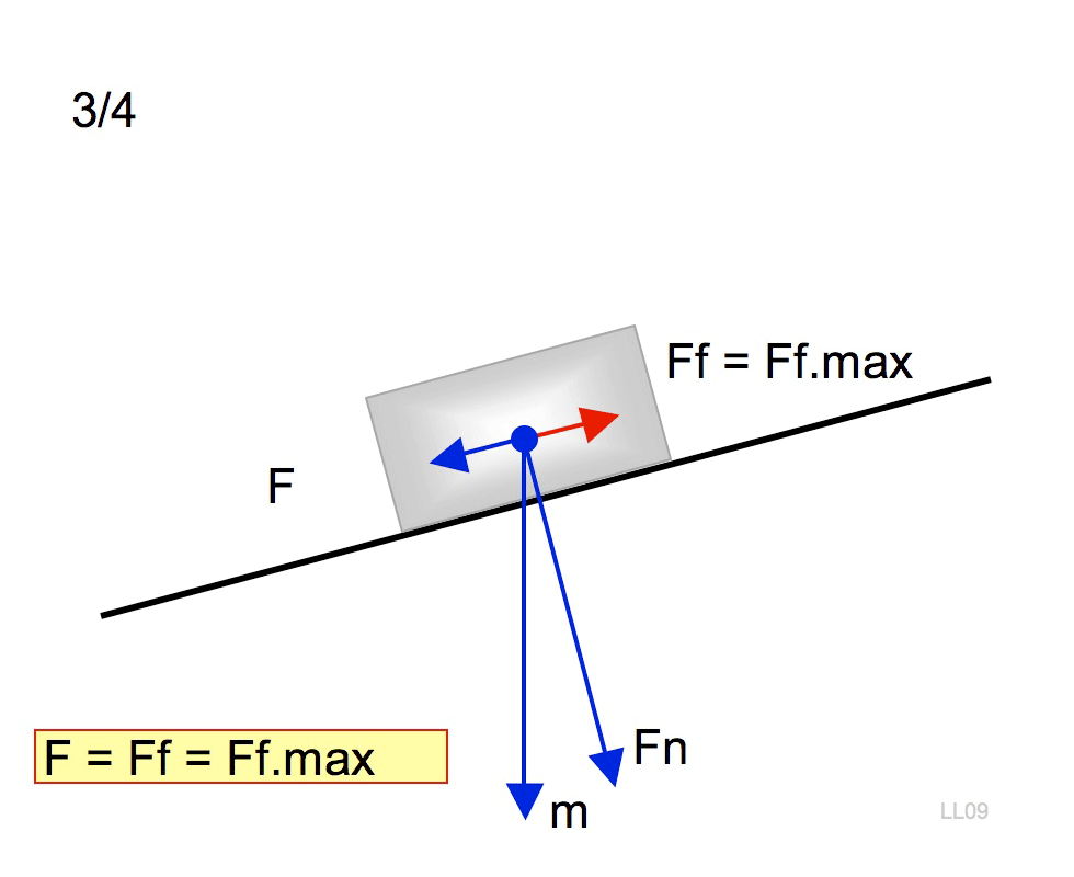 Image used for describing the friction principle.